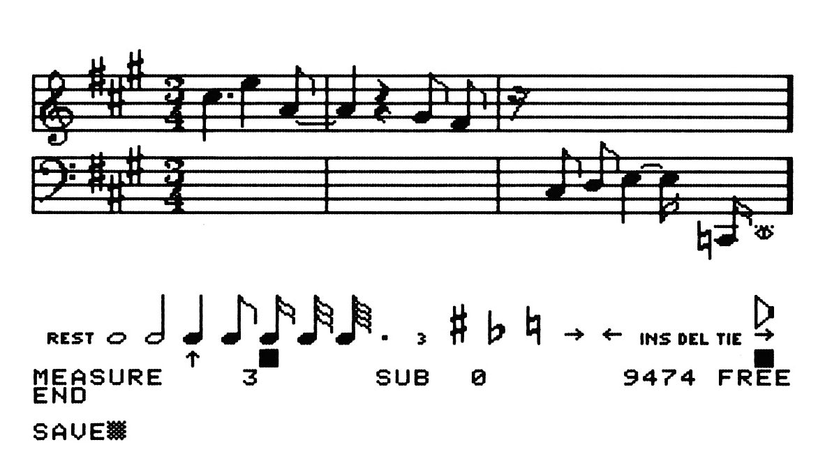 Screenprint of ALF Products music Entry program on an Apple II computer.